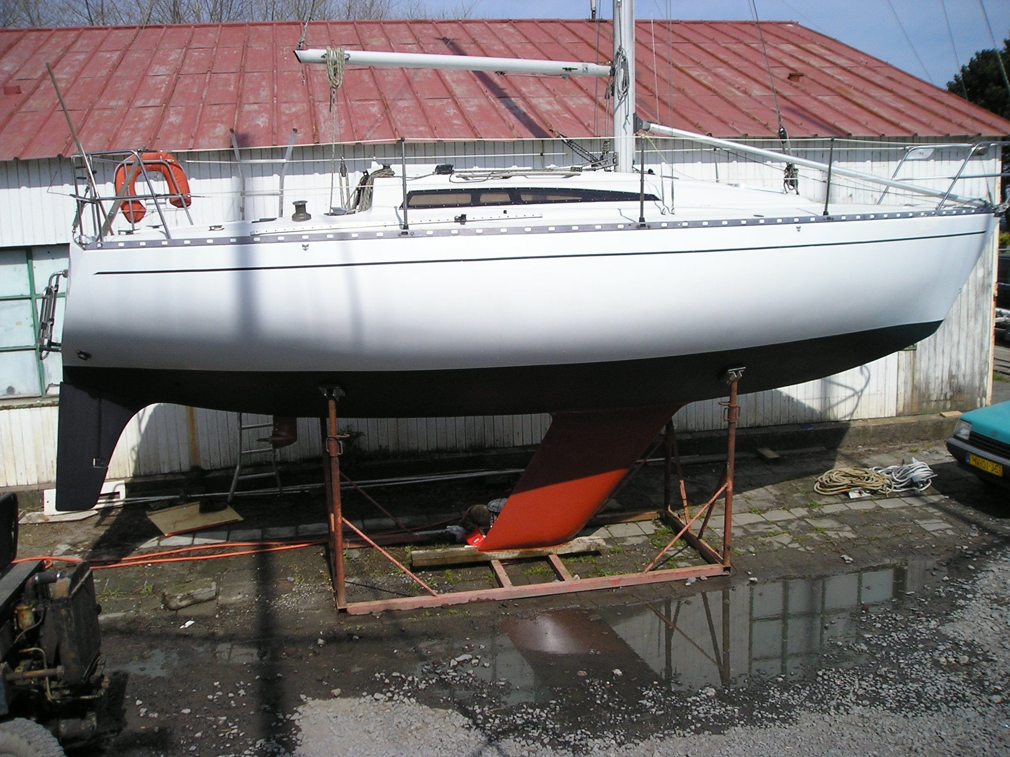 Trident 80 type yacht on a stand.